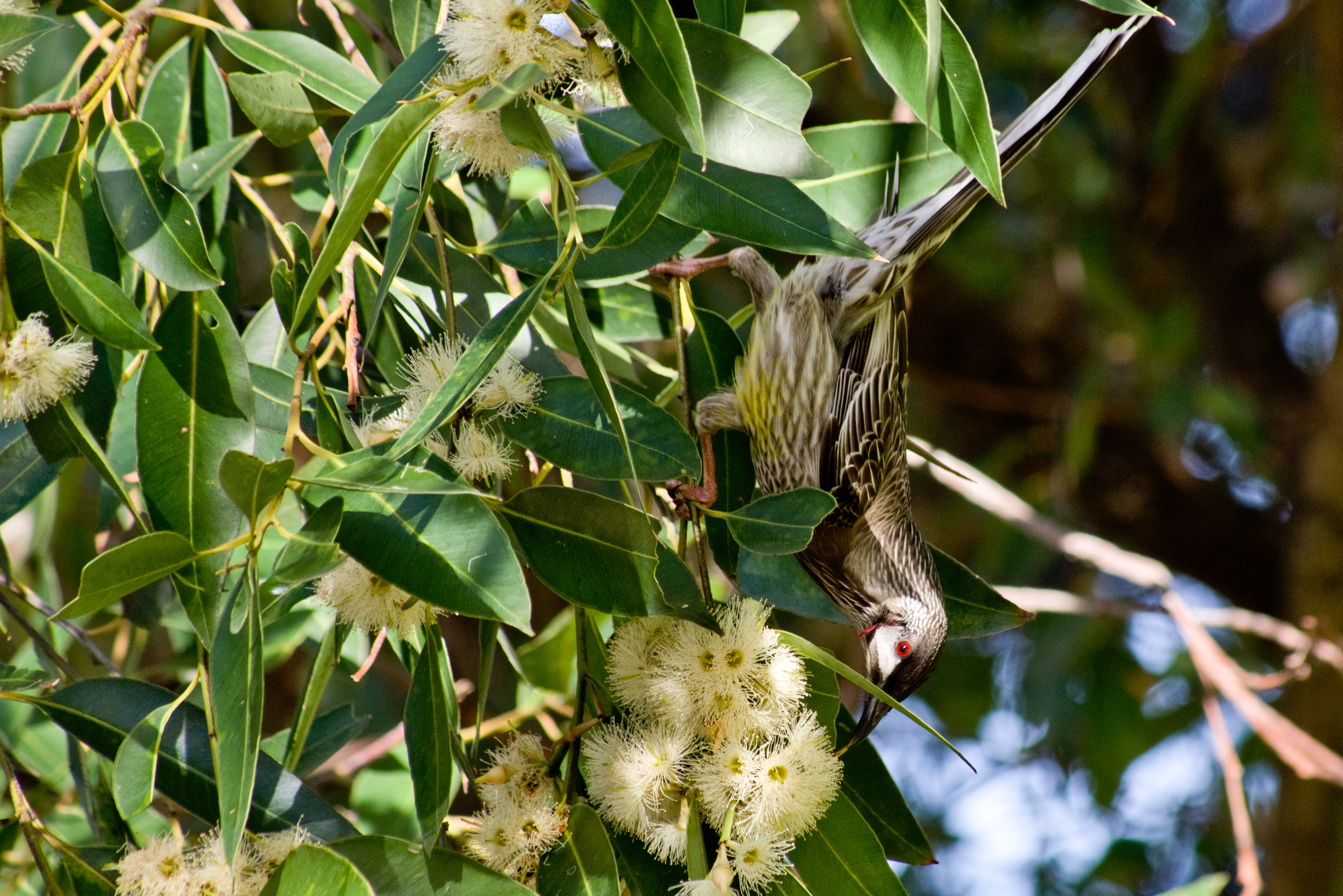 Bibra Lake Red Wattle Bird - Honey Eater